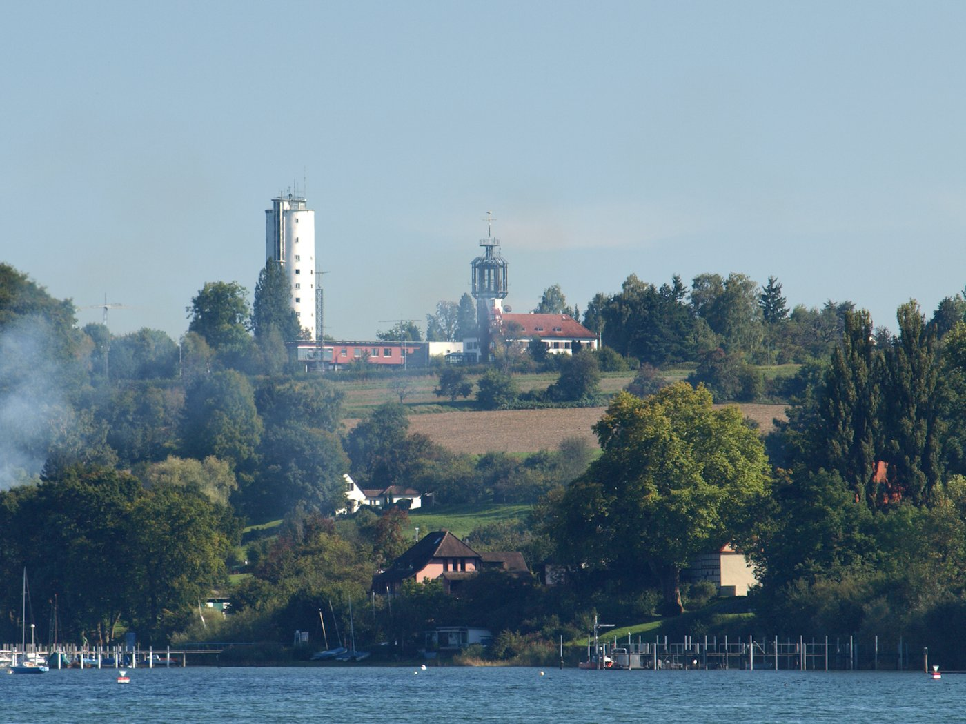 Konstanz (Bodensee, Germany), water tower, photo 2010